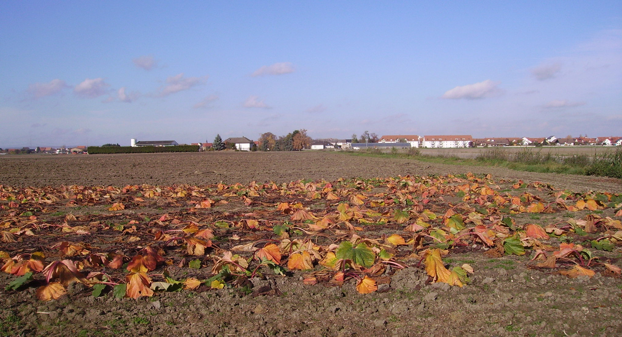 Ludwigshafen-Ruchheim, part of Ludwigshafen in Rhineland-Palatinate, Germany